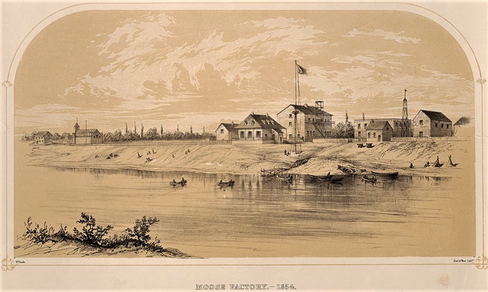 Moose Factory in 1854, Ontario, Canada